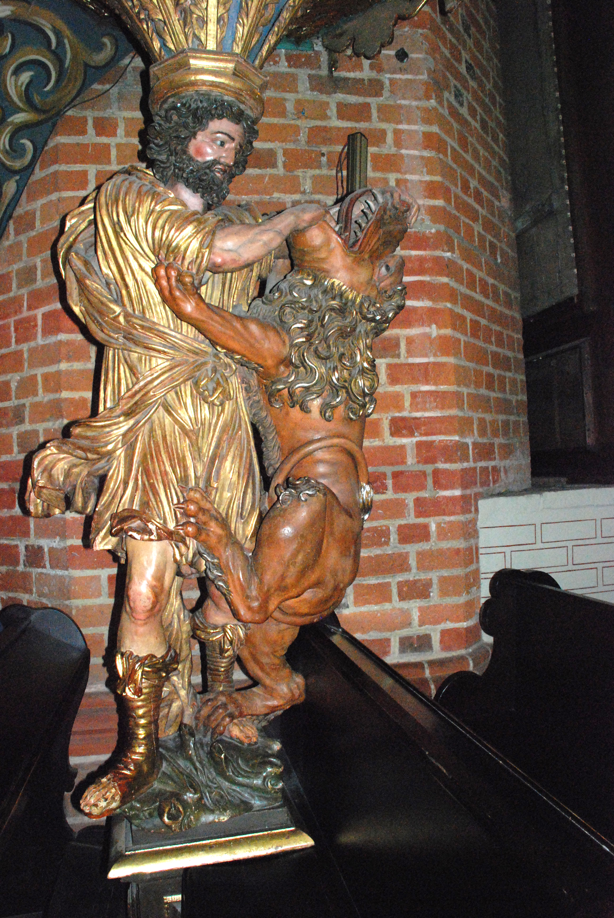 Base of the pulpit